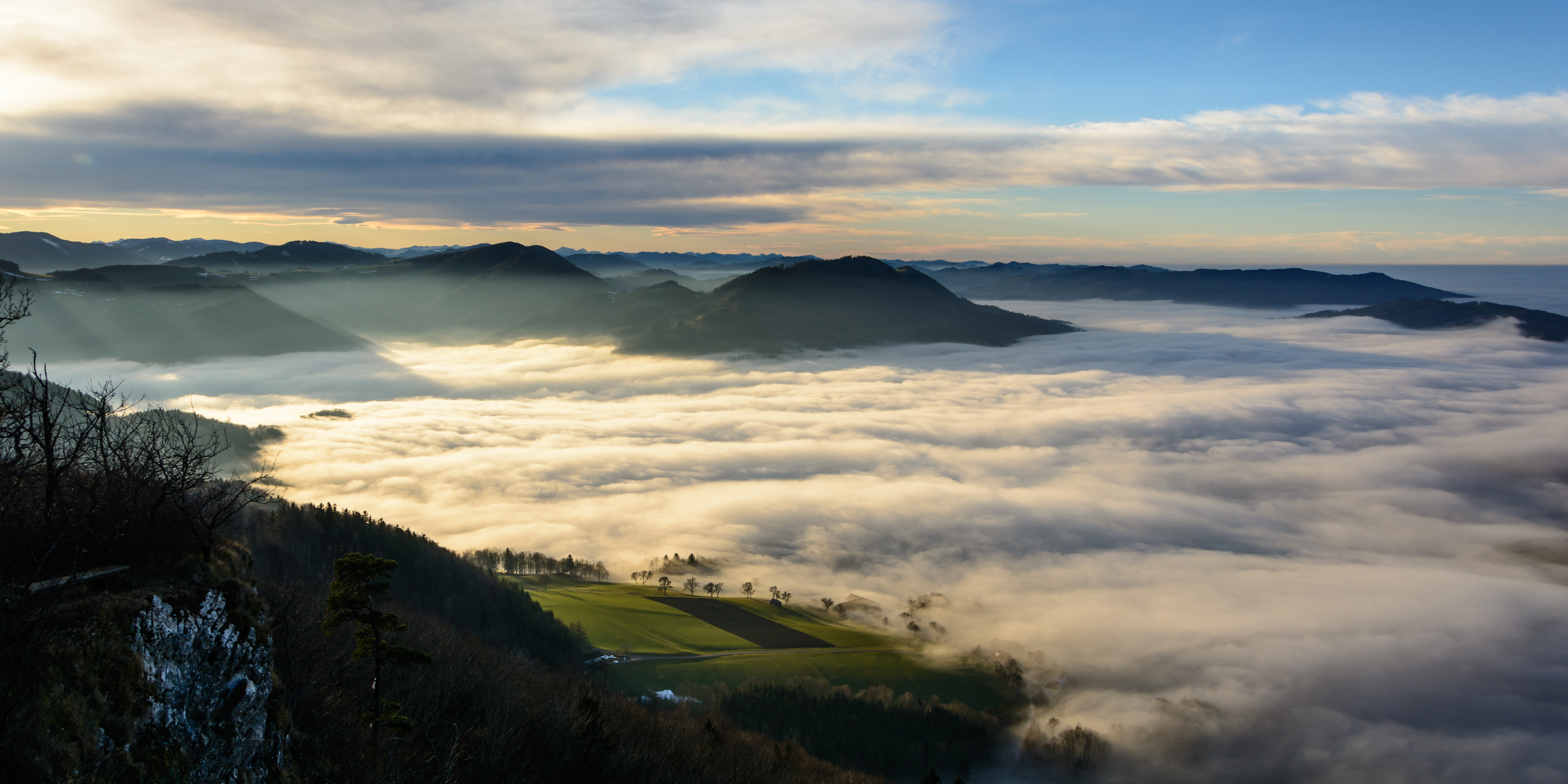 View from Blassenstein mountain near Scheibbs (Lower Austria) to the west, with fog over Erlauf valley and Danube.